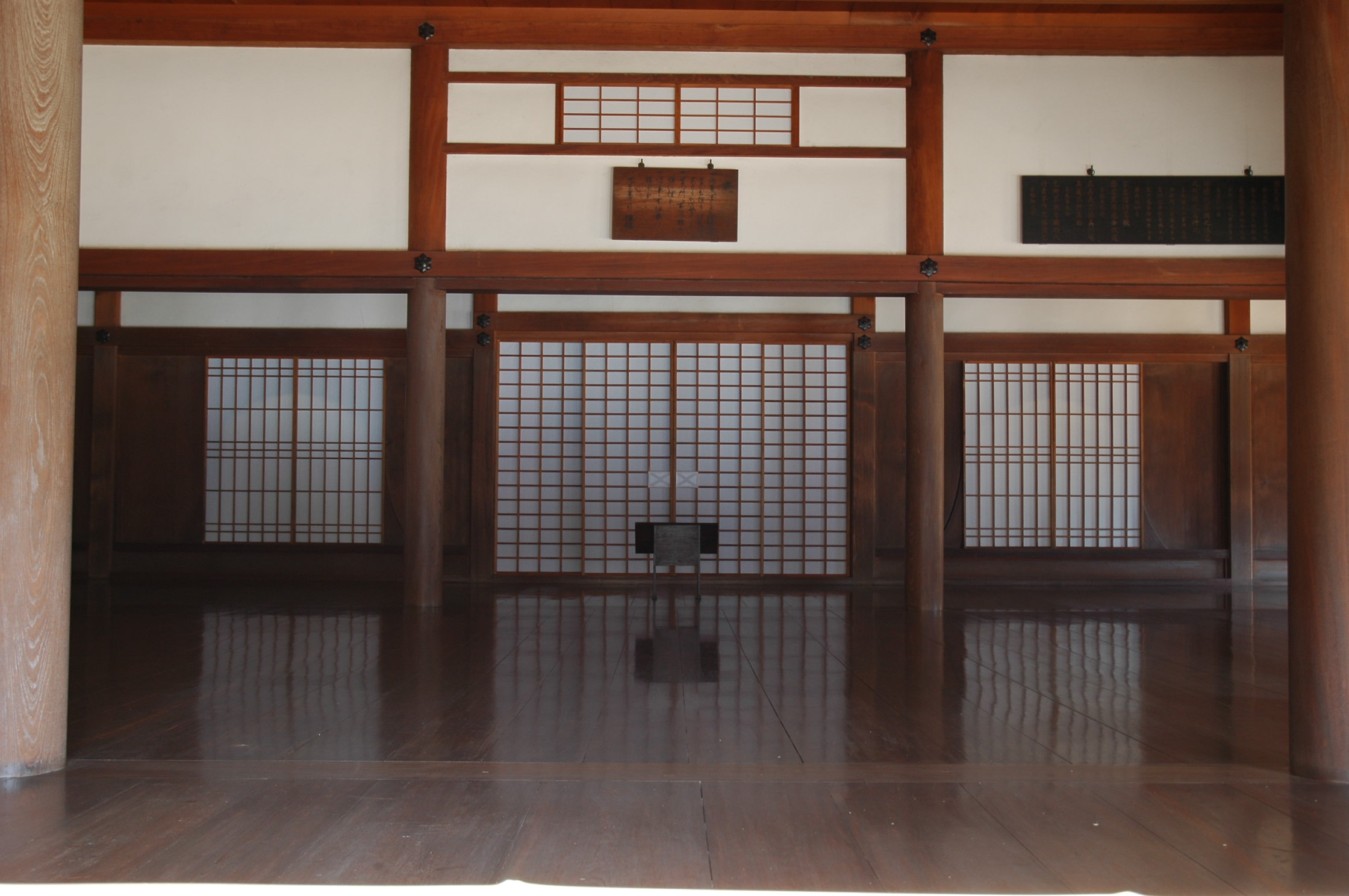 photo of Shizutani school inside of the hall.The Confucianism was lectured on here.